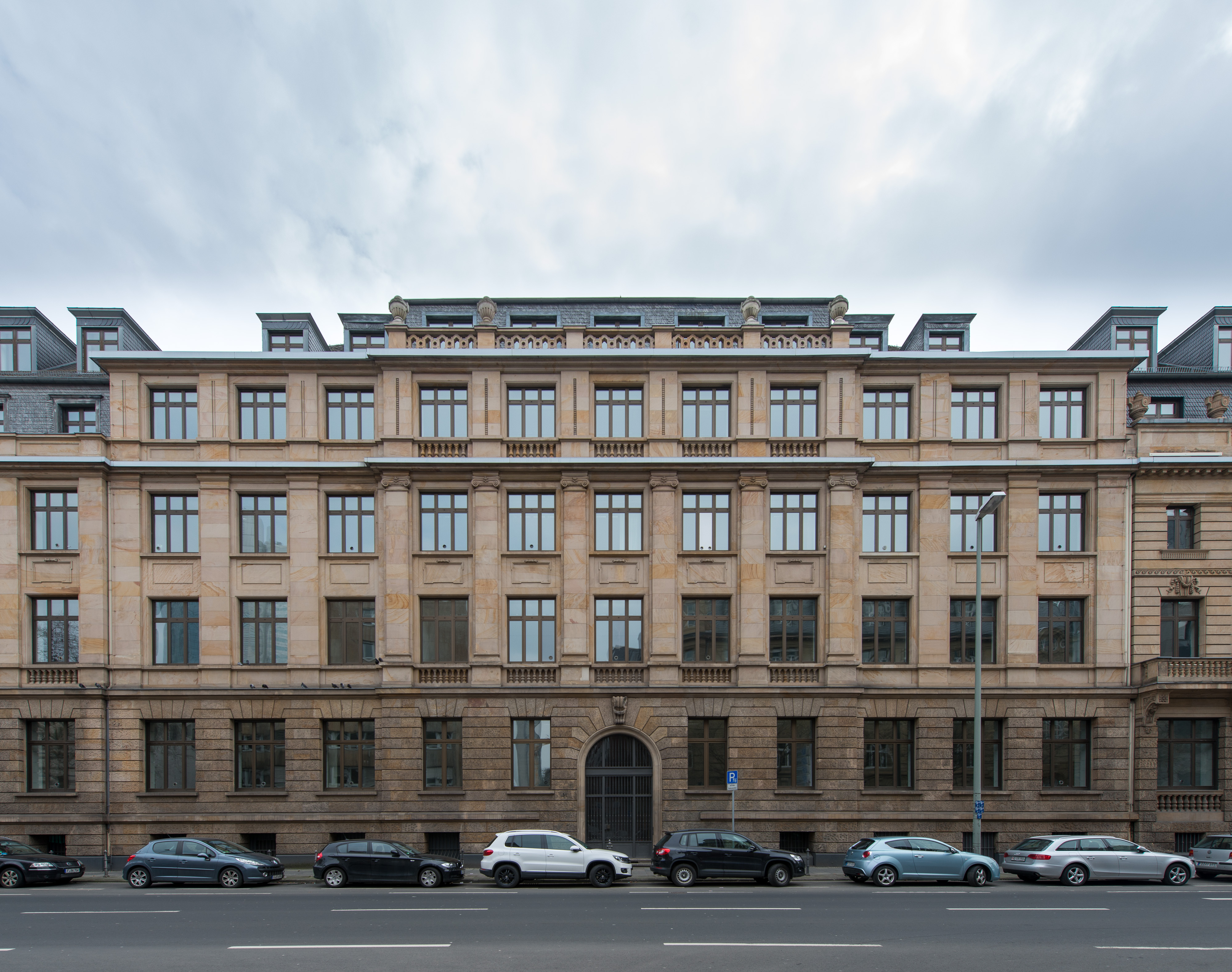 Frankfurt am Main, Gutleutstraße 31 (East). Cultural monument of the city